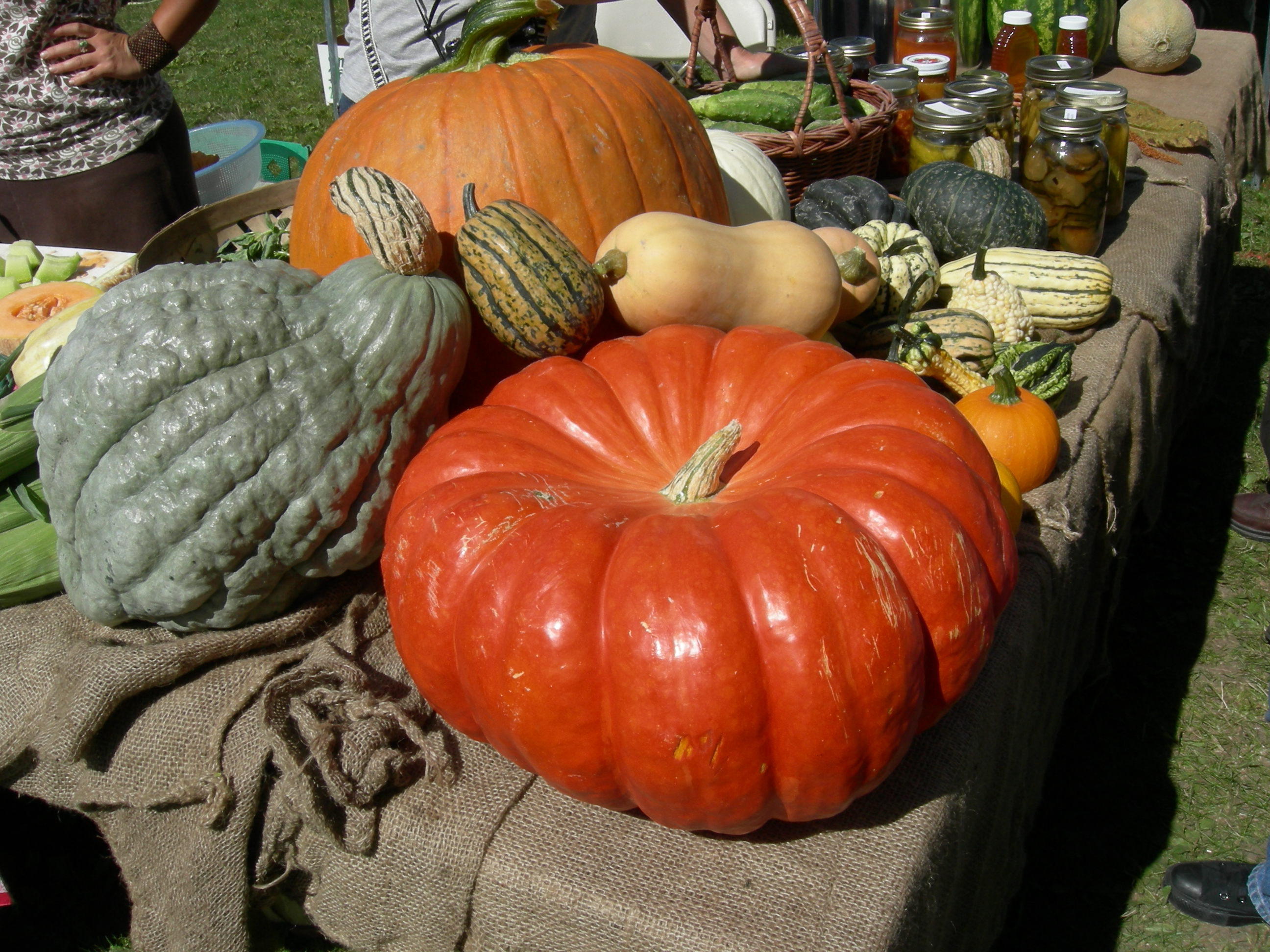 Squashes for sale, Seattle Tilth Harvest Festival, Meridian Park (adjacent to the Good Shepherd Center), Wallingford, Seattle, Washington. At the time, a measure was pending before the City Council to allow ownership of goats within city limits.